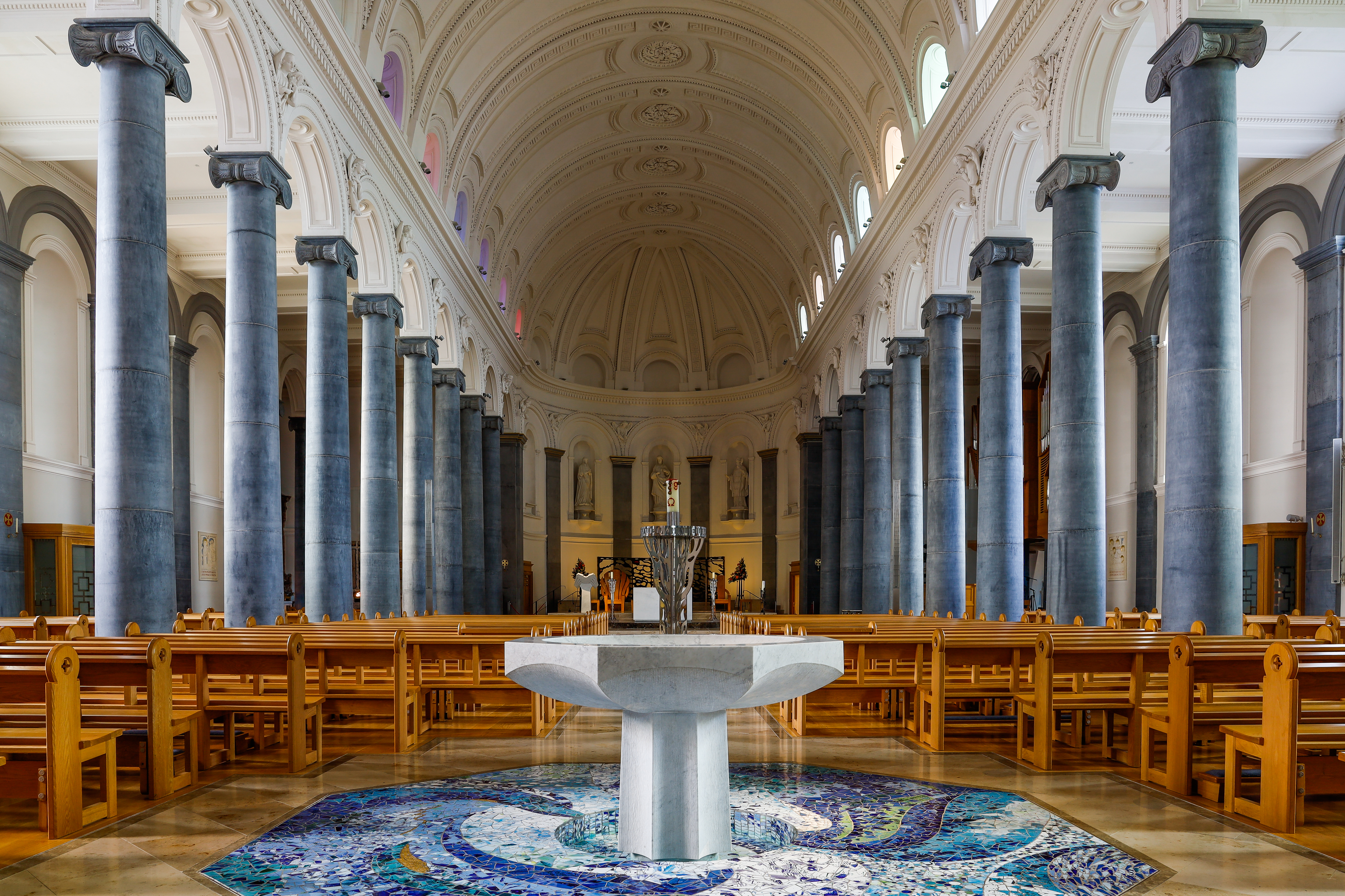 Nave of St. Mel's Cathedral, looking towards the main altar in north direction (liturgically east). The baptismal font was carved from white Carrara marble by Tom Glendon, its surrounding mosaic on the floor is the work by the ceramic artist Laura O'Hagan. Quote from Bishop Colm O'Reilly: “The baptistery is to be located at the main entrance. Located there it cannot be ignored as we enter the cathedral. [..] Every time that people enter the cathedral they will pass the font and place hands in the water and thereby will be reminded of their commitment to Christ through their baptism.” (See St. Mel's Cathedral Longford – Visitor's Guide; quote from Colm O'Reilly, Restoring a Cathedral – burden or opportunity, The Furrow, vol. 63, no. 10, October 2012, pp. 455–459 (quote from: p. 458), JSTOR 41709056.) Wikidata has entry Q281026 with data related to this item.